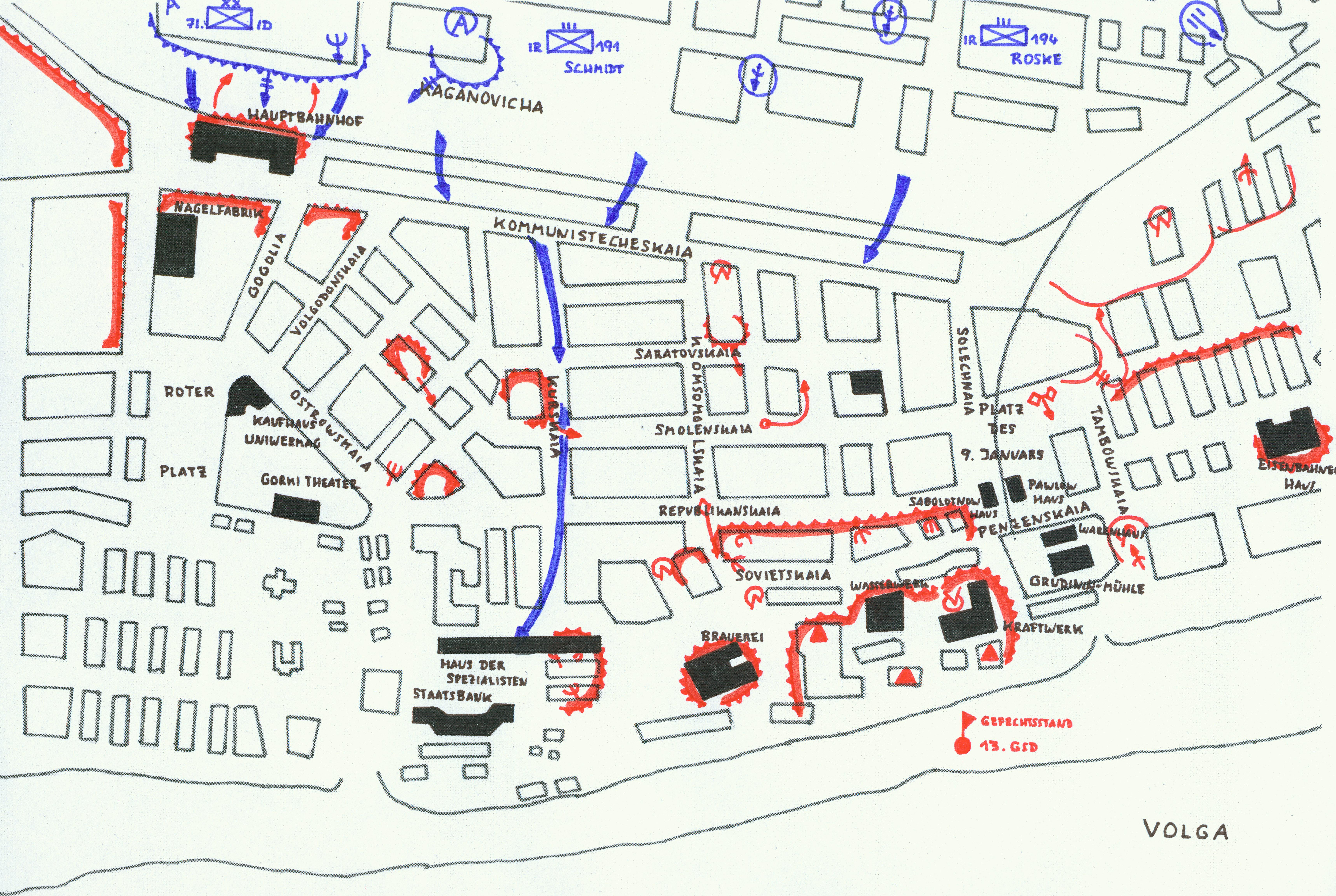 Stalingrad city centre 16th September 1942